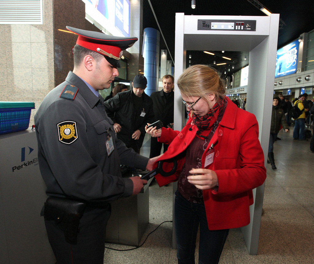 “Work at JSC Vladivostok International Airport”. Law enforcement officer screens a passenger at the international airport of Vladivostok.